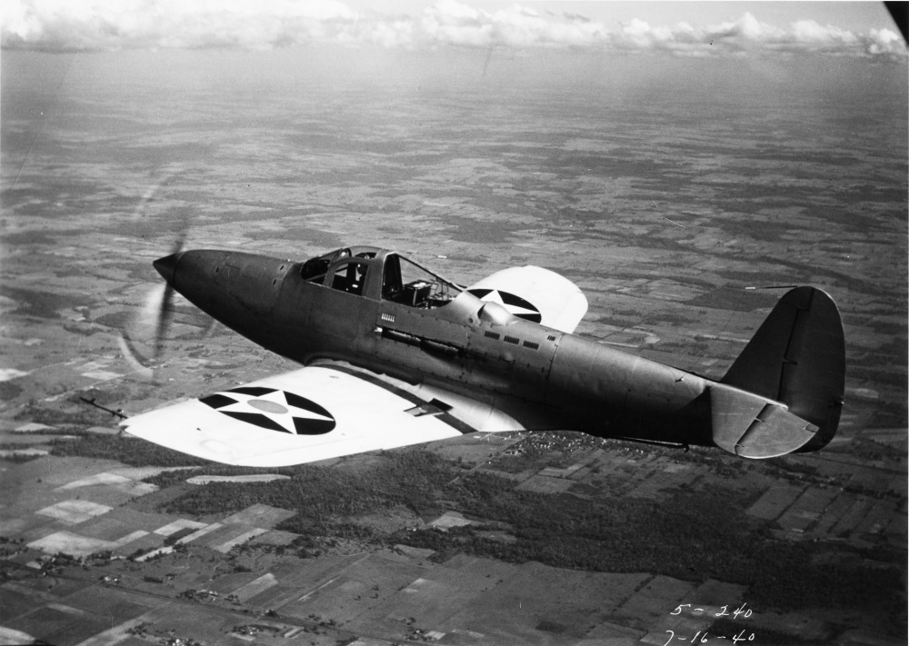 PictionID:41545774 - Title:Ray Wagner Collection Image - Catalog:16_000456 Bell XFL-1 1588 mfg - Filename:16_000456 Bell XFL-1 1588 mfg.tif - - - Image from the Ray Wagner Collection. Ray Wagner was Archivist at the San Diego Air and Space Museum for several years and is an author of several books on aviation --- ---Please Tag these images so that the information can be permanently stored with the digital file.---Repository: San Diego Air and Space Museum